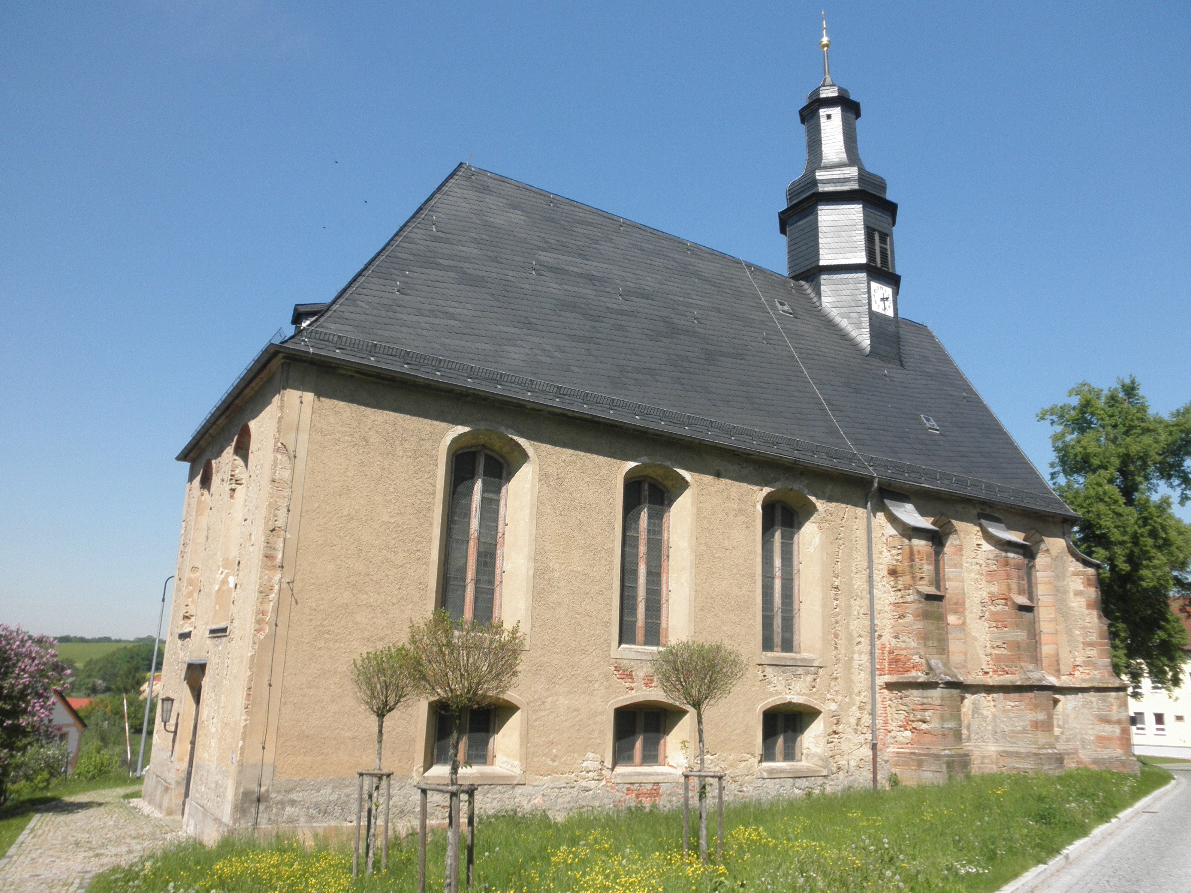 Church in Großstechau (Löbichau) in Thuringia